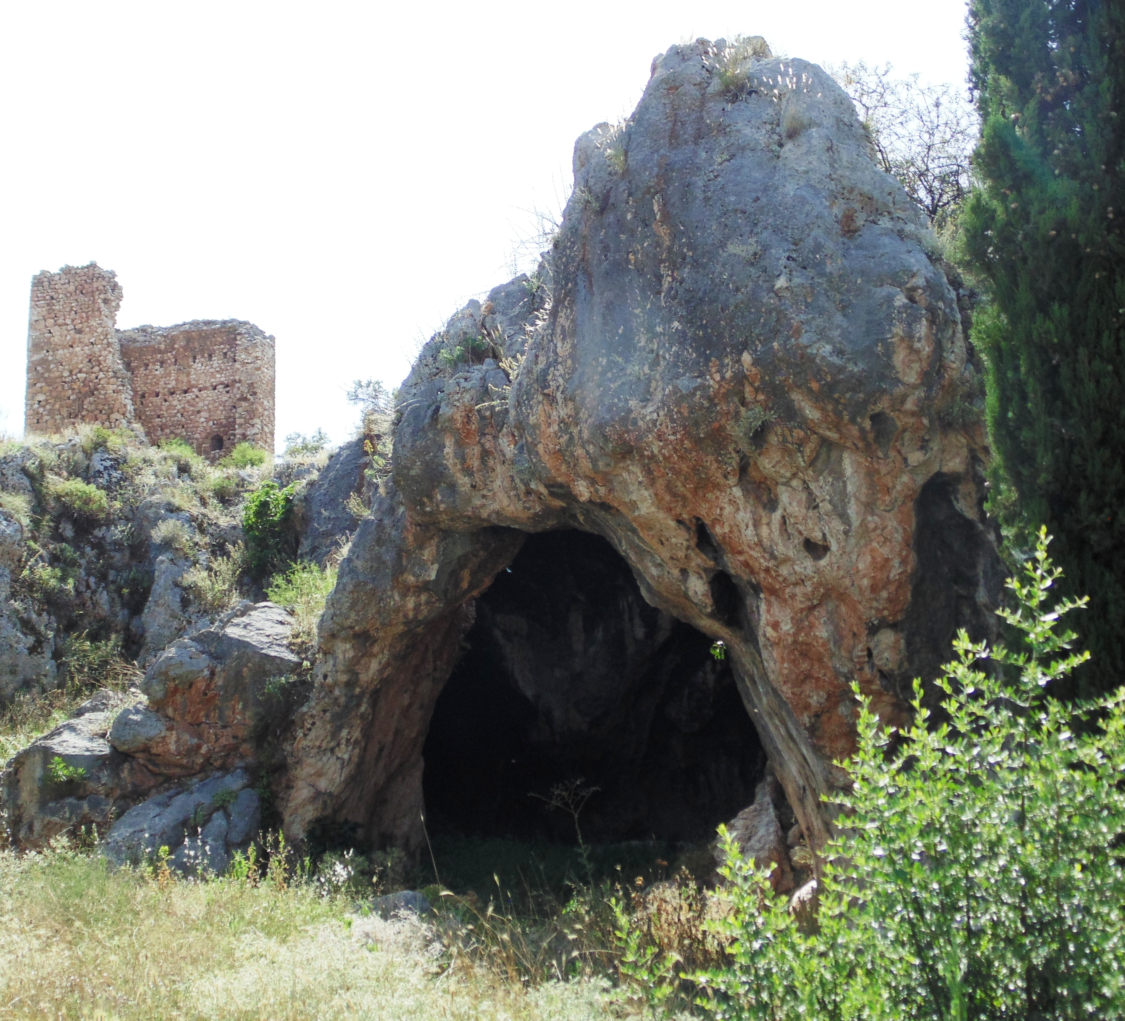 Cave and medieval tower